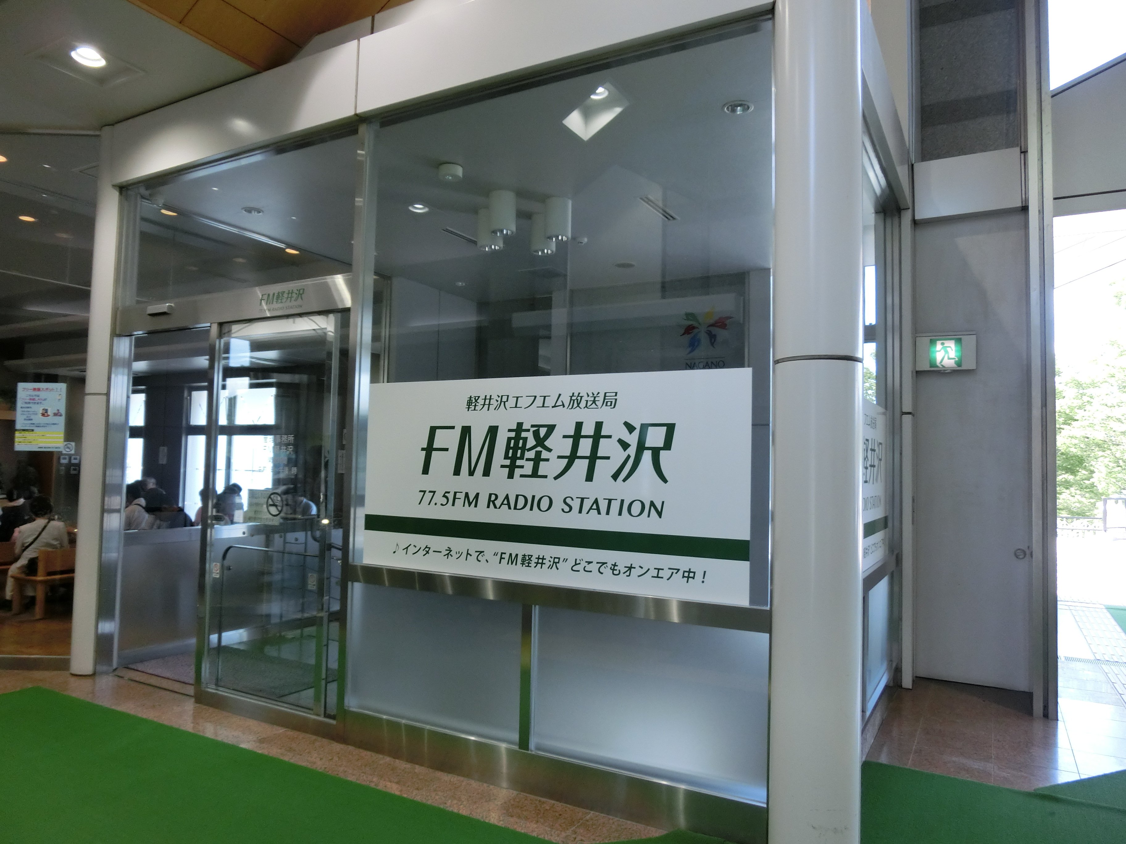 FM Karuizawa Studio